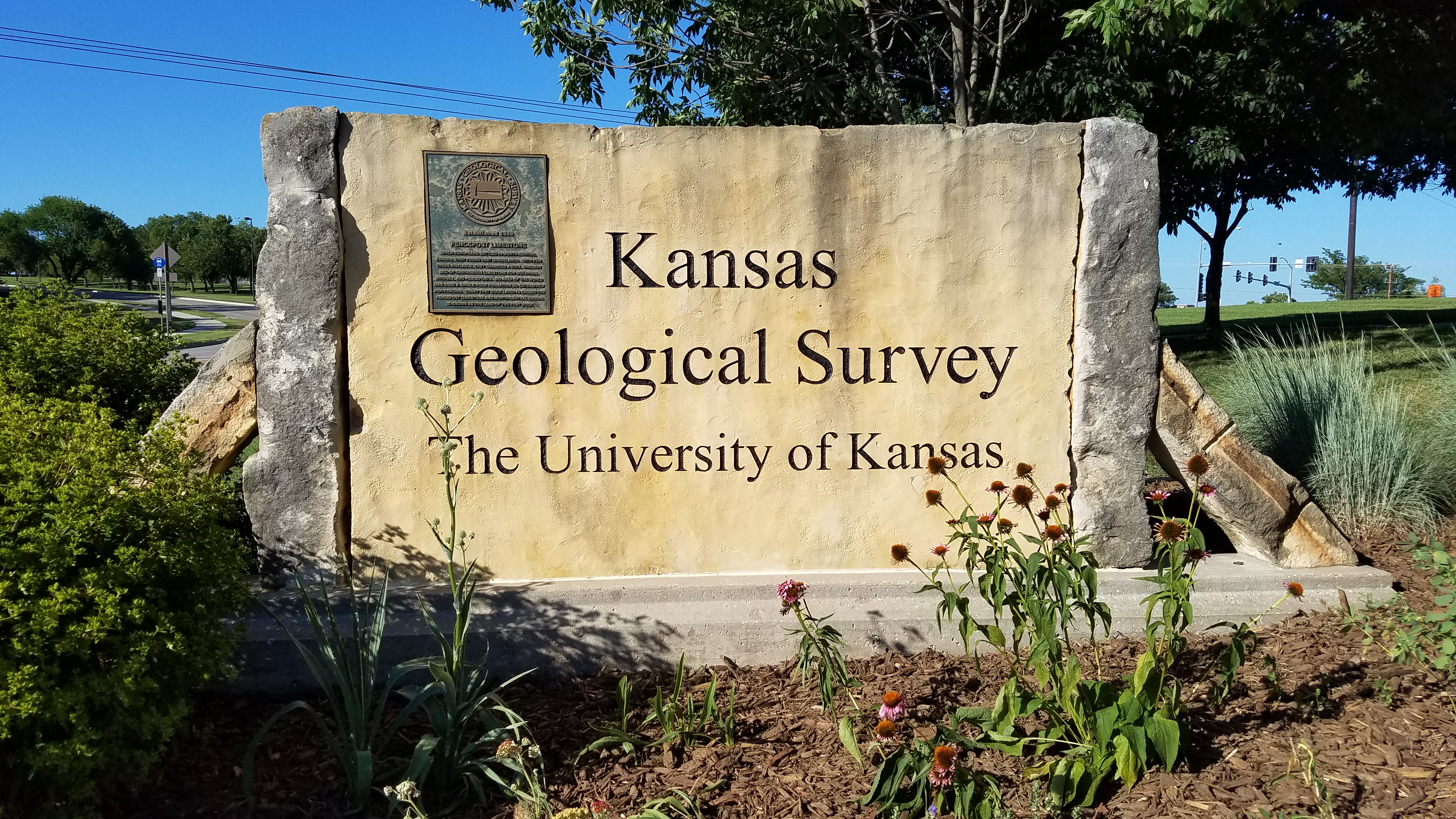 Grounds sign for the Kansas Geological Survey in Lawrence, Kansas. It is constructed of a carved slab of Fencepost limestone set between two stone posts of the same rock. "When Europeans settled in north-central Kansas, they found vast grasslands. With few trees available, they quarried a thin, shallow bed of Cretaceous limestone for buildings, bridges, and fenceposts. No area of the world has used a single rock formation so extensively for fencing. Today that rock layer is called Fencepost limestone and north-central Kansas is known as the Land of the Post Rock."[1]